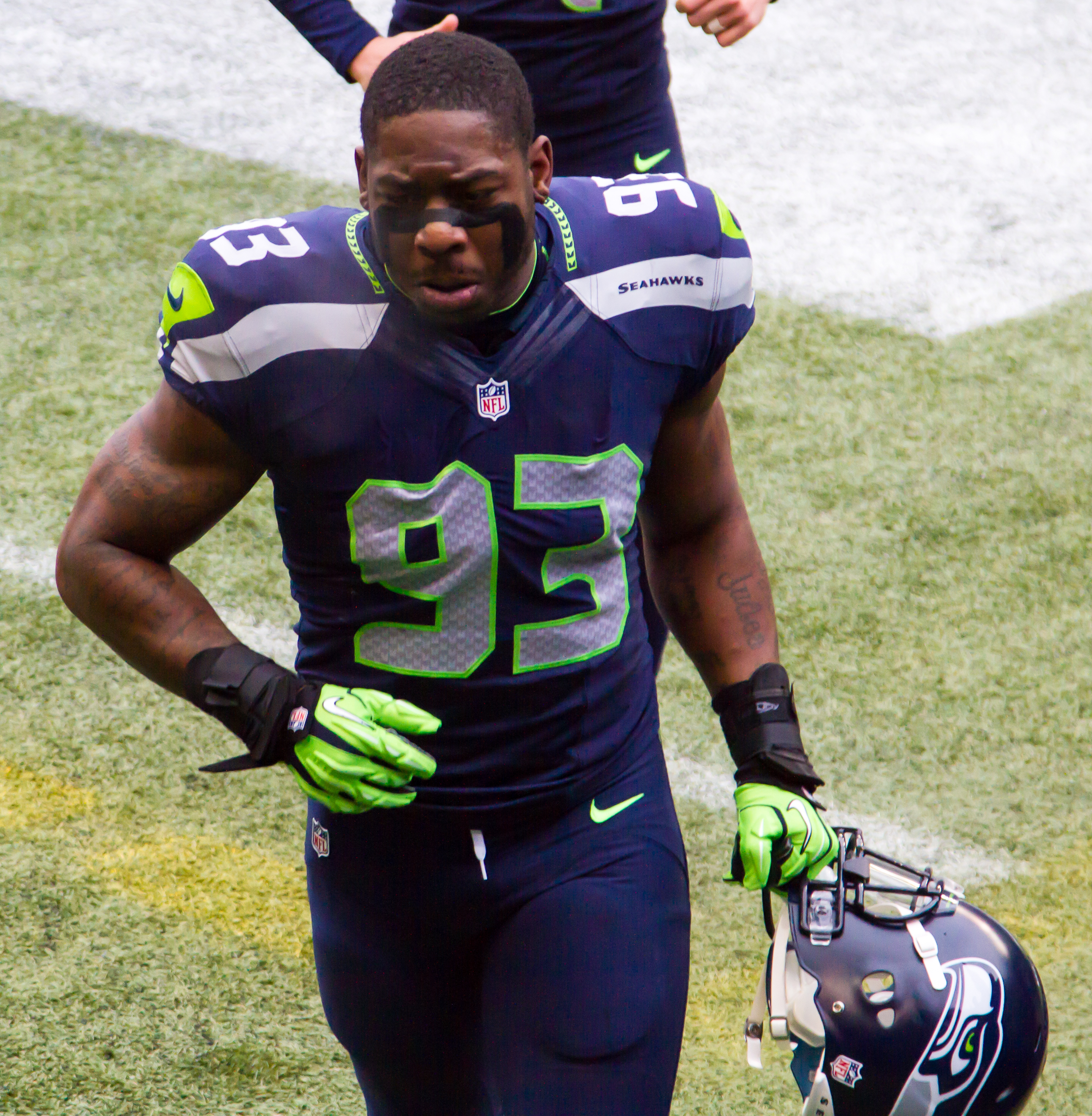 O'Brien Schofield, Seahawks vs Rams 12.29.13